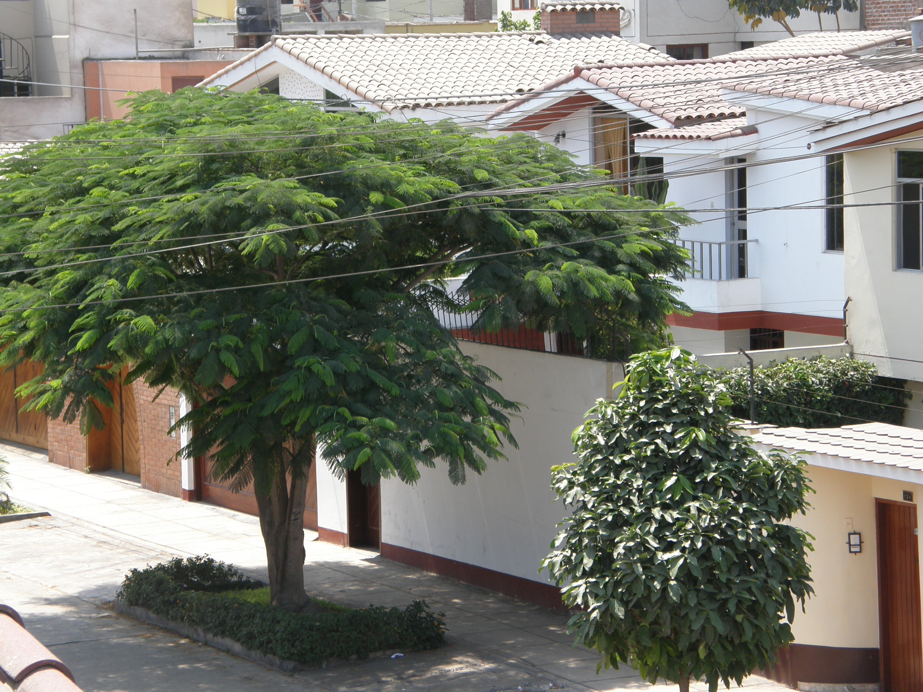 Houses in the district of San Borja.